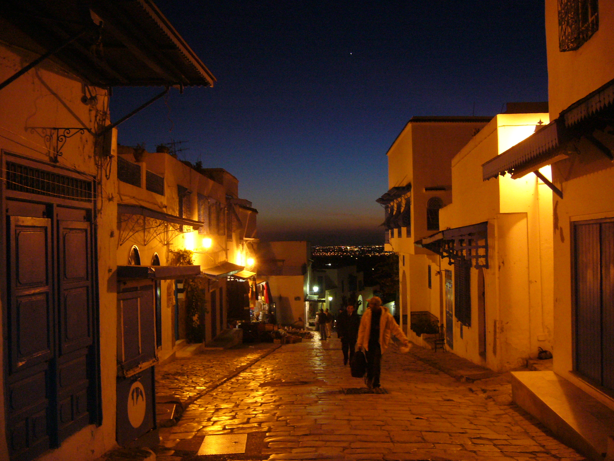 Sidi Bou Saïd at night.